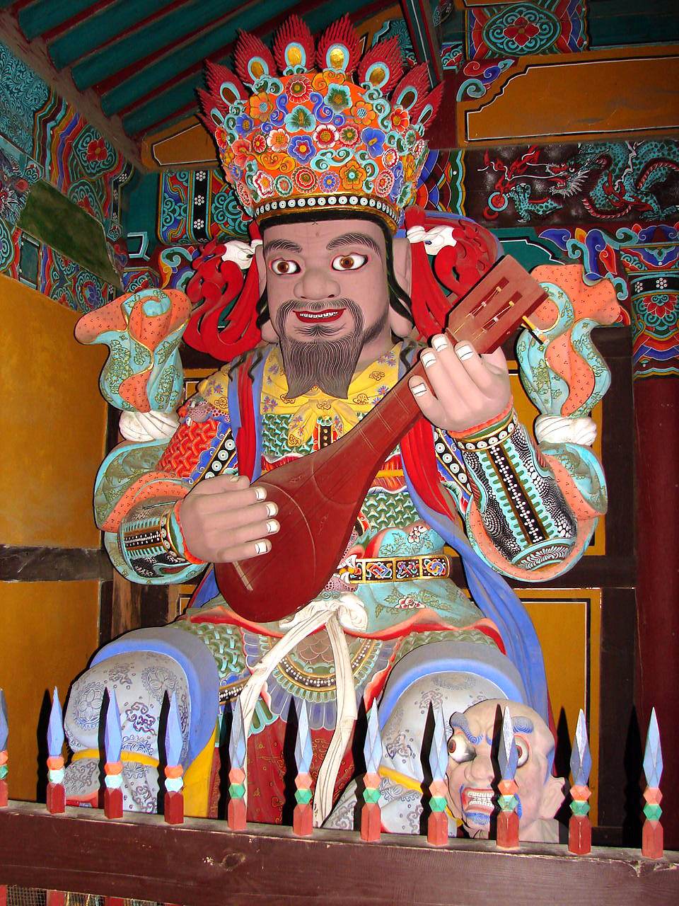 Dhrtarastra, Guardian of the East is one of the Four Heavenly Kings guarding the entrance to Beomeosa. The Four Heavenly Kings dwell in the heaven closest to this earth and guard the four cardinal directions.